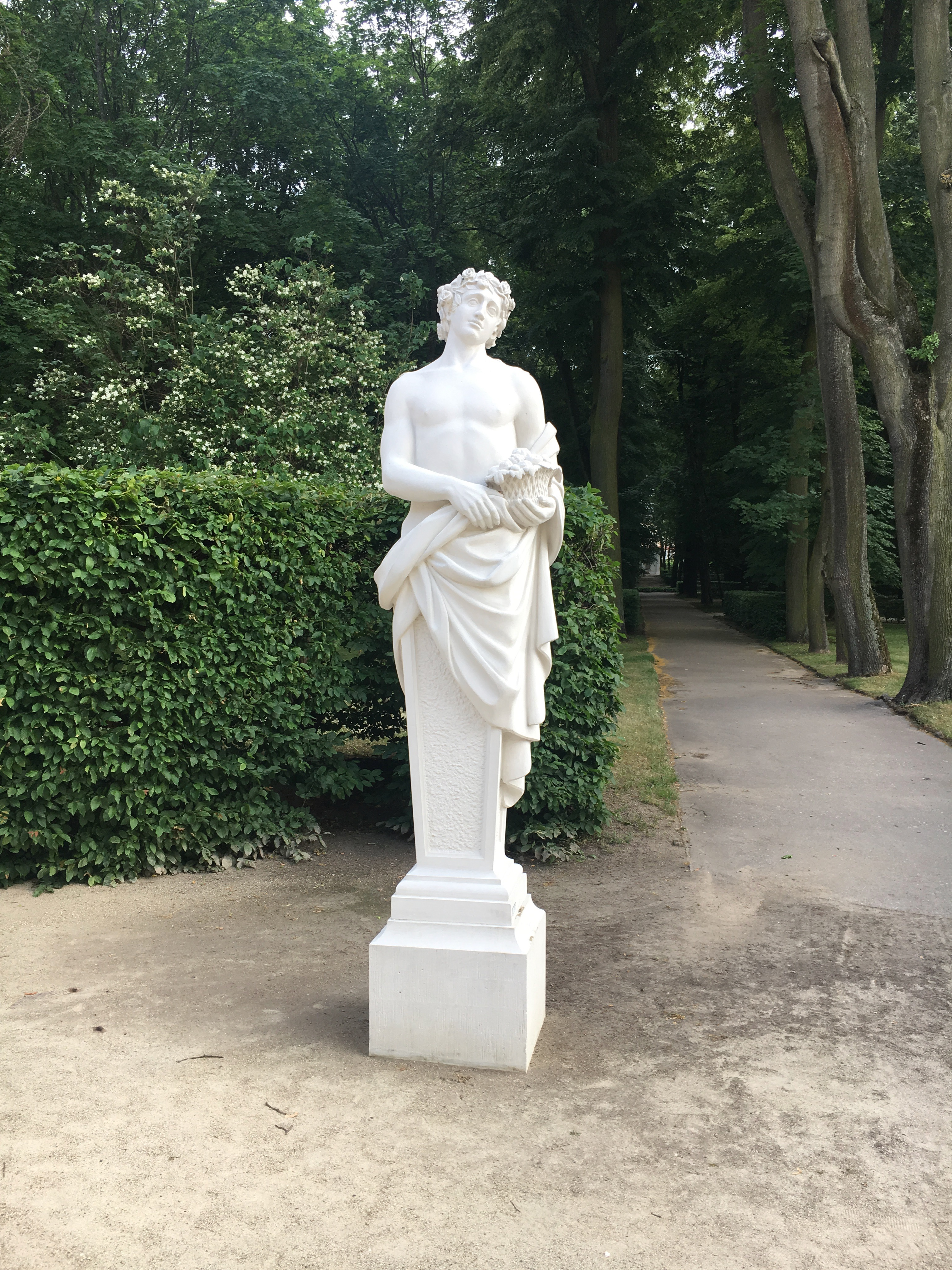 Roman god Vertumnus - statue in Branicki palance garden, Bialystok (Poland)